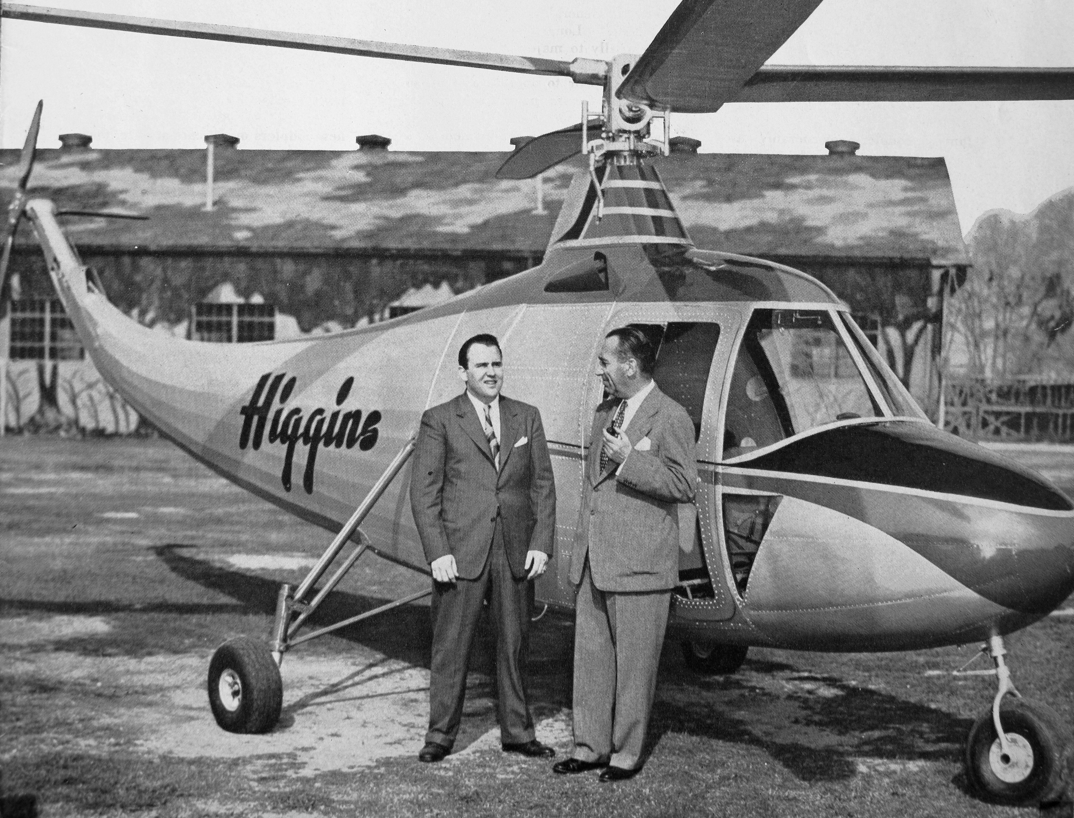 Italian-American aerospace engineer and aviation pioneer Enea Bossi sr with his son Charles (left), with their helicopter designed and built for Higgins Industries. 1940s